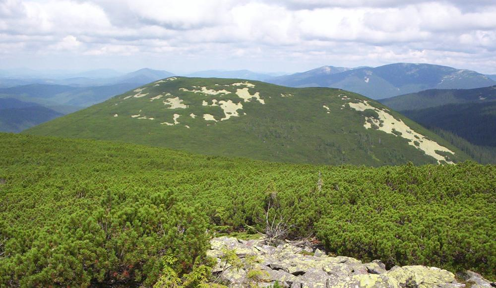 Small Popadia in Gorgany. Shrubs are Pinus mugo.